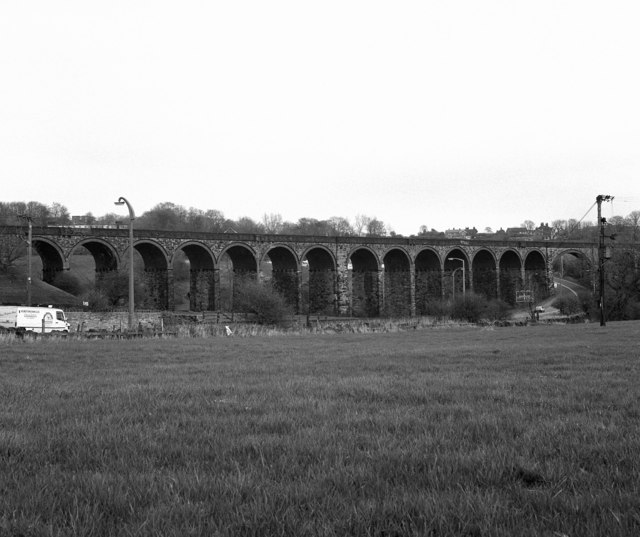 Viaduct on the Pickle Bridge branch